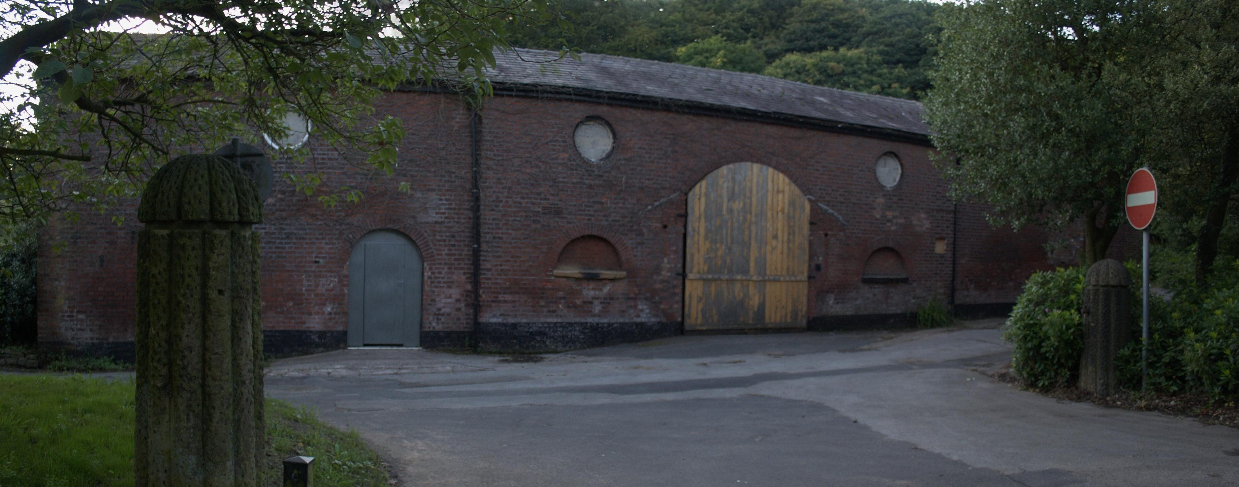 The stables, and formerly a nightclub, at Philips Park. The two pillars are gateposts.